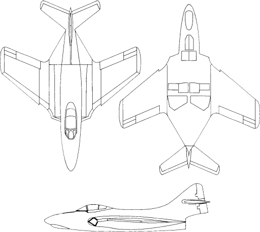 Line drawings for a single-seat Grumman F9F/F-9 Cougar.